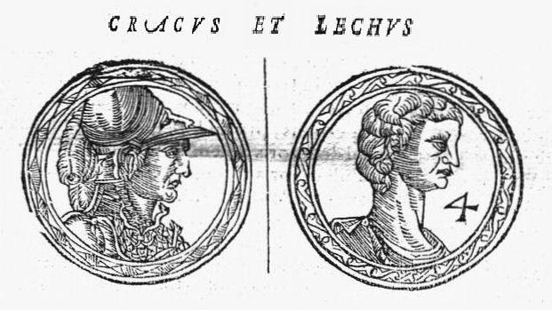 A picture of Lech II and his older brother Krak (do not mislead with Krak II), sons of legendary Krak.